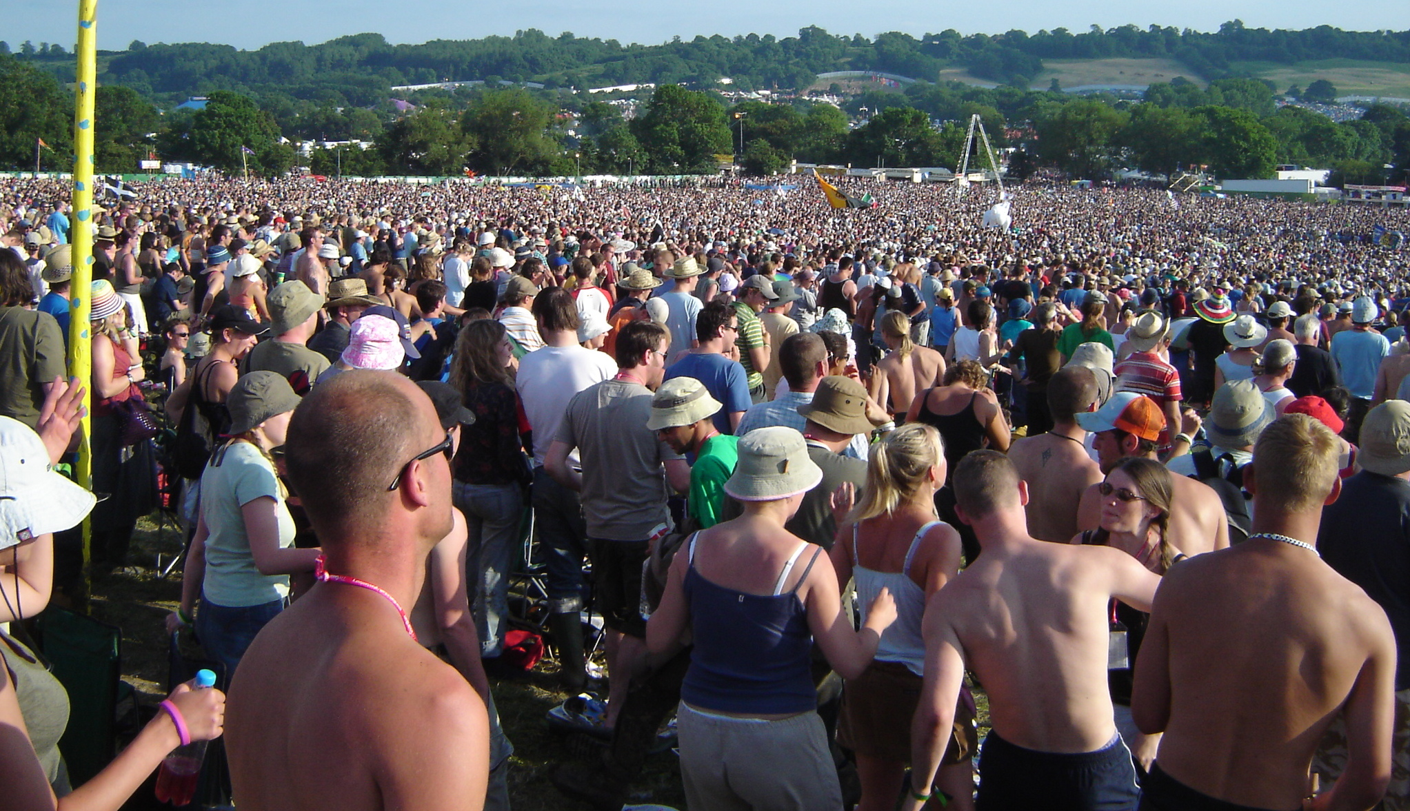 Nearly packed at the Pyramid